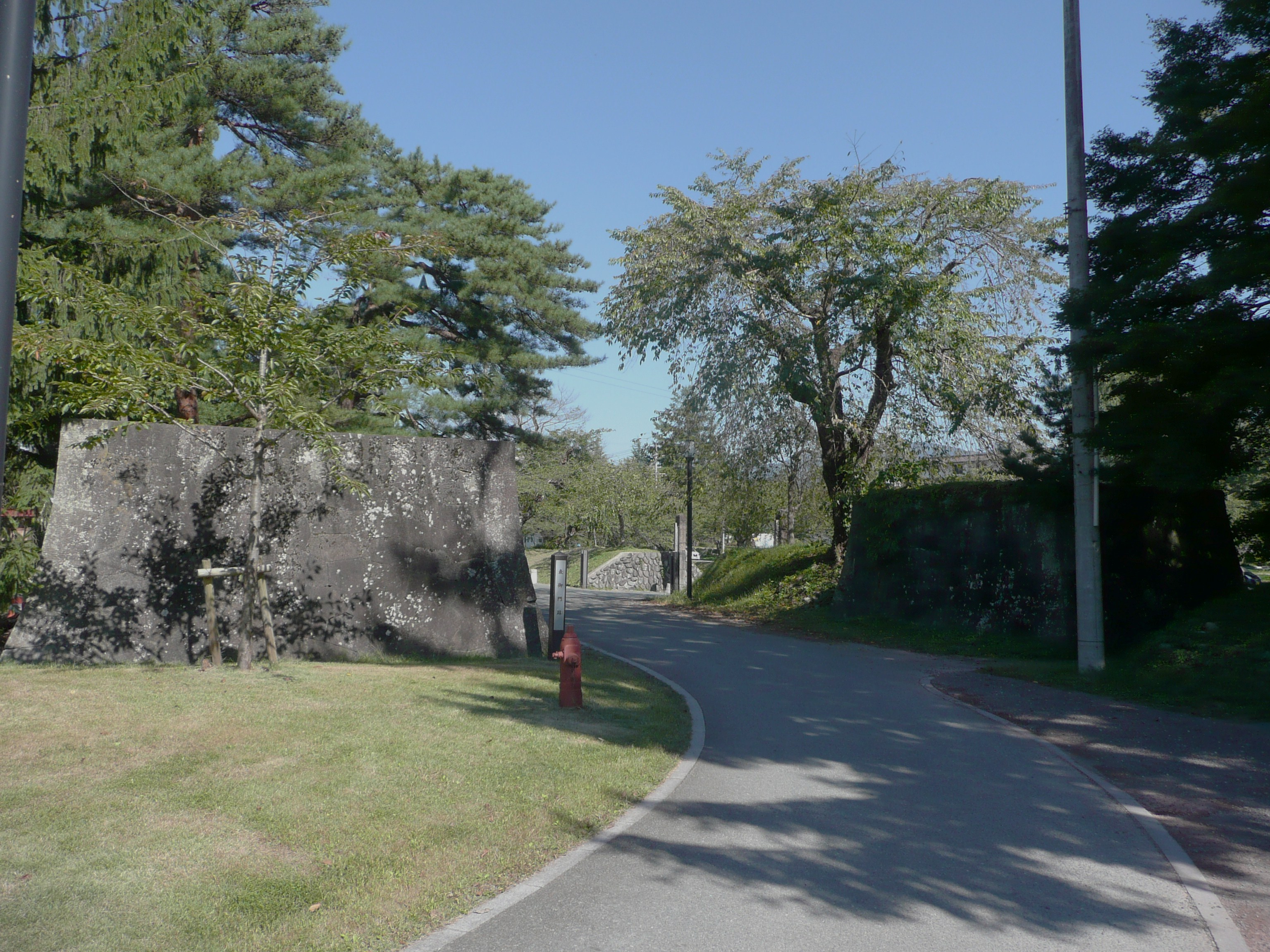 新庄城の石垣